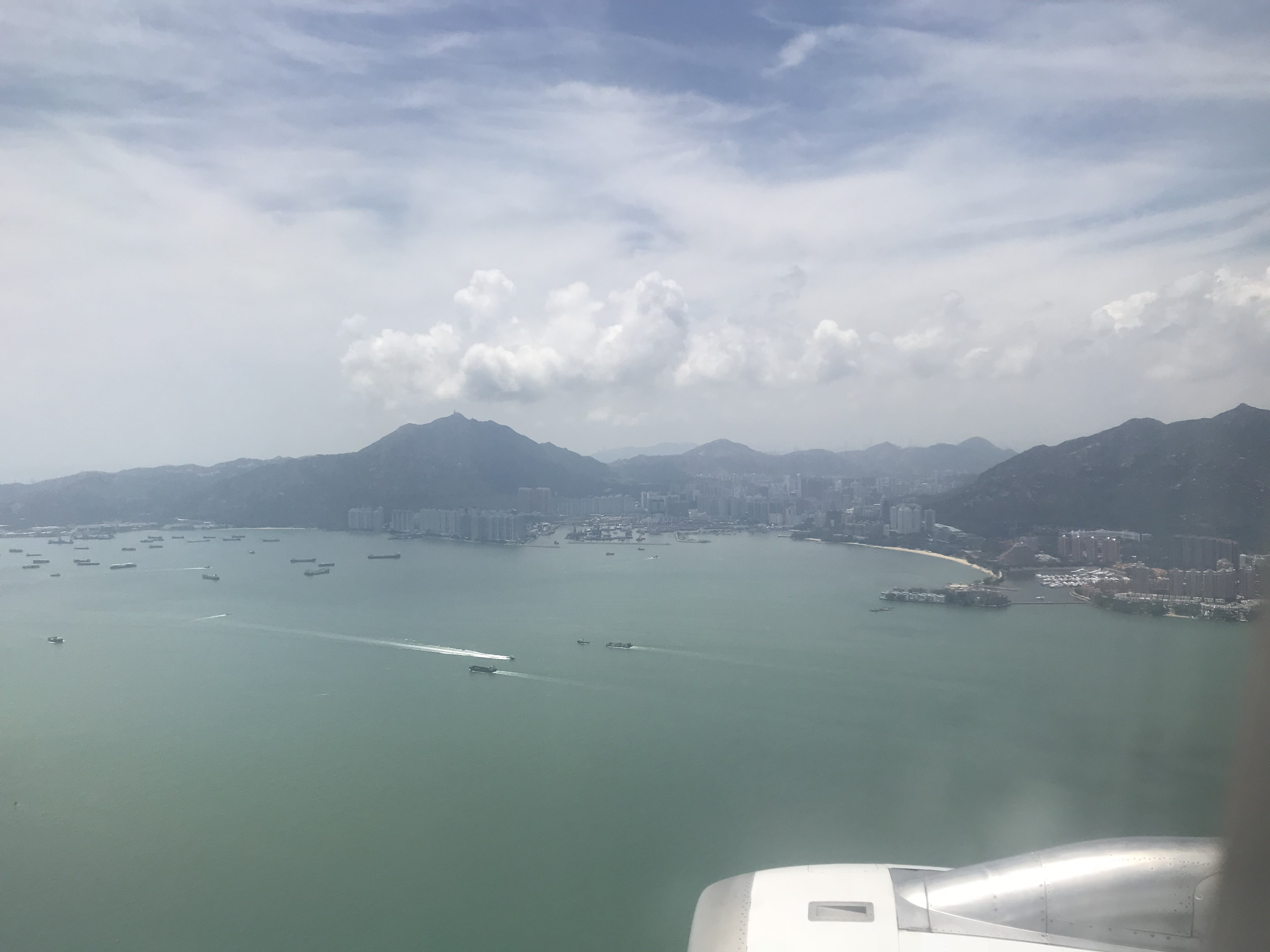 201806 Tuen Mun, Hong Kong